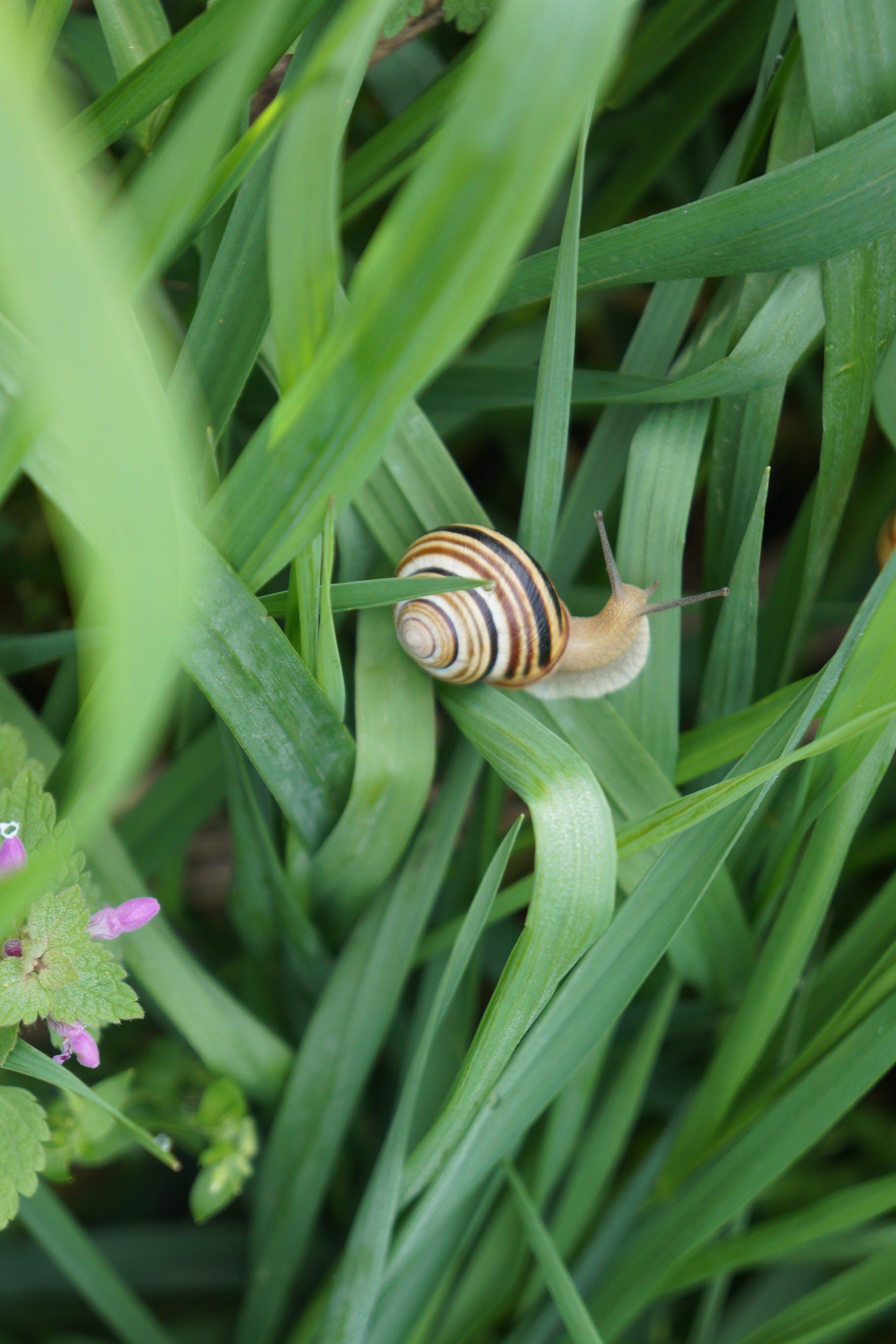 Near Jazovo, Banat, Serbia